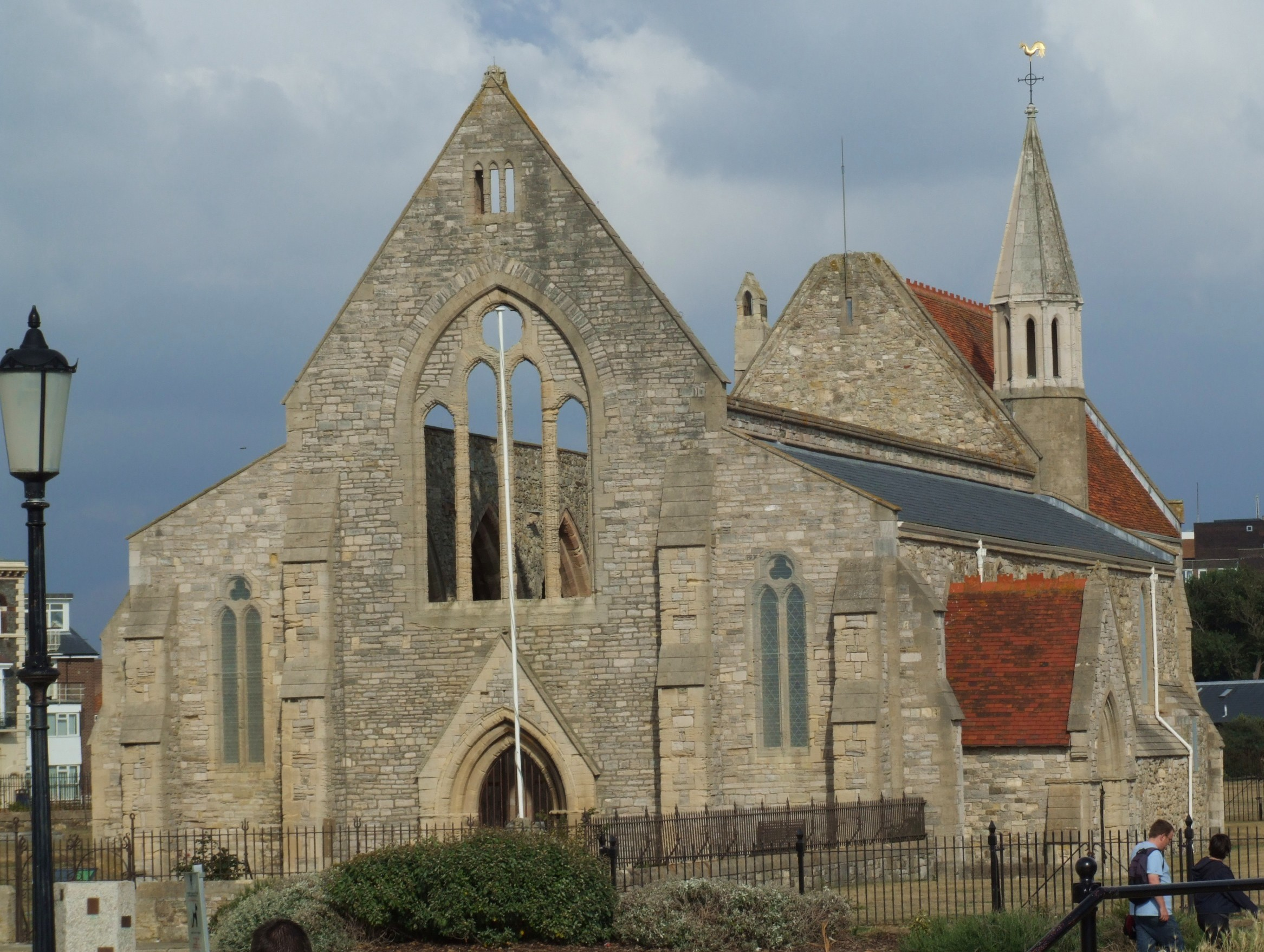 Portsmouth, England, United-Kingdom Royal Garrison Church